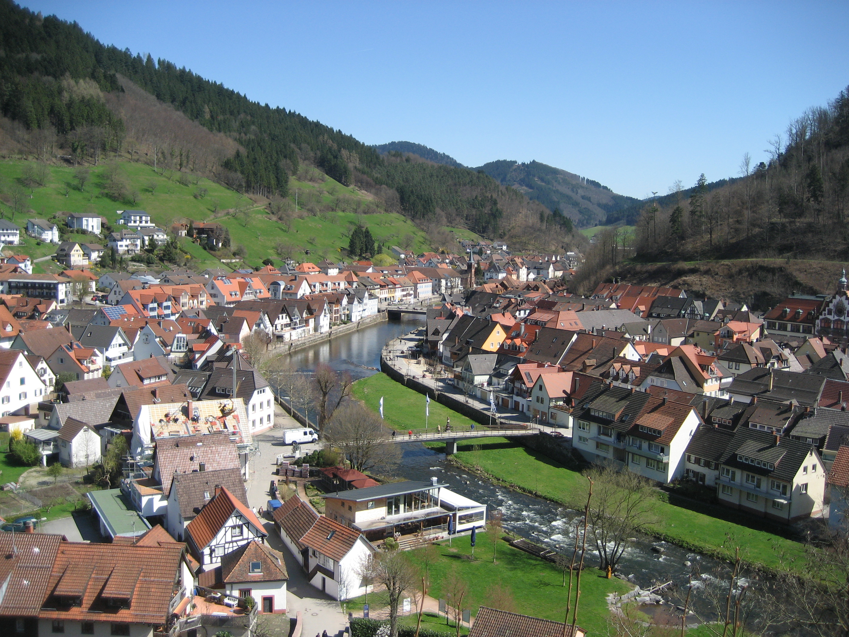 Wolfach in the Schwarzwald region, Germany, Europe